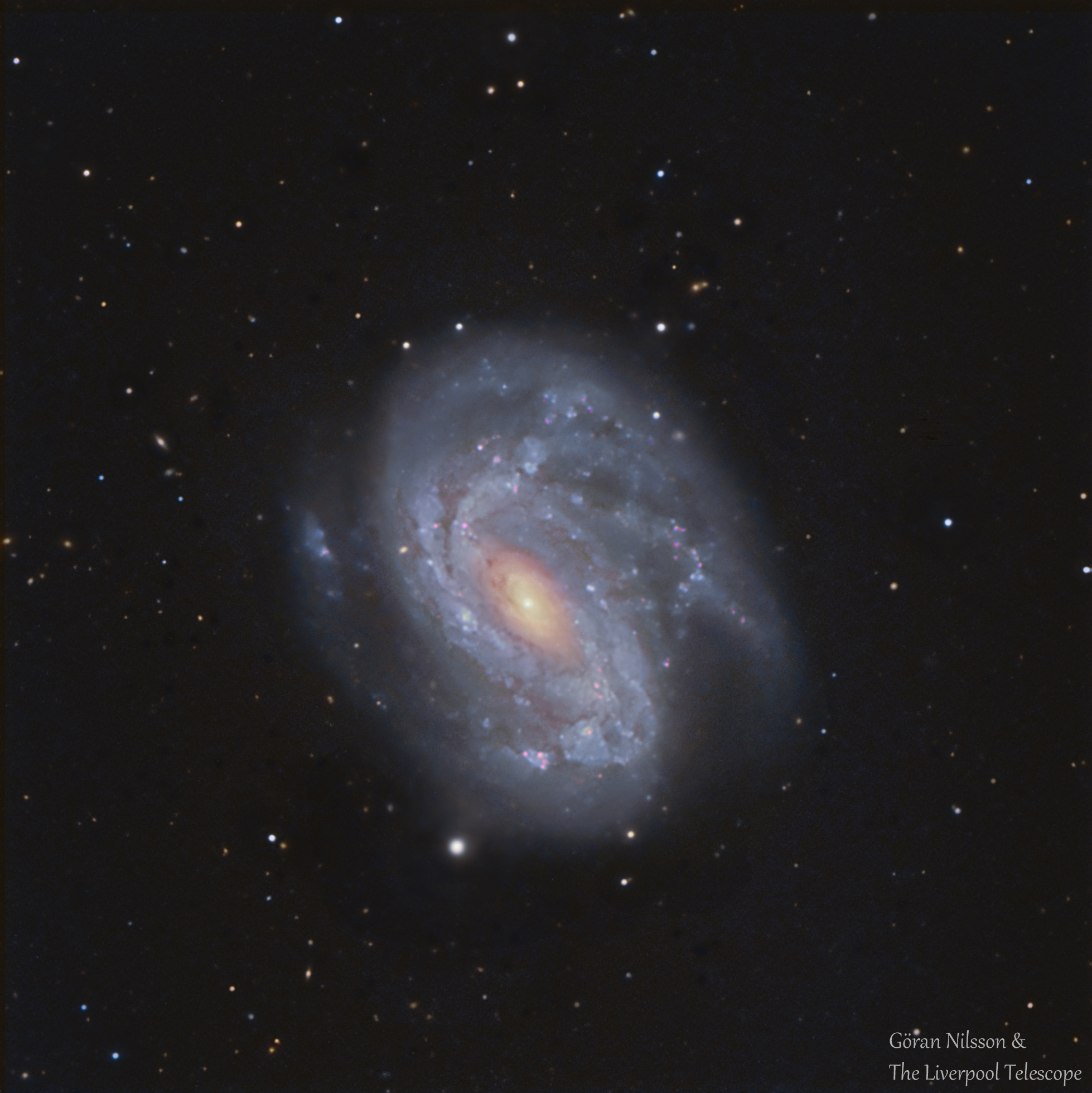 RGB image of the galaxy NGC 4051. Data from the Liverpool Telescope, a 2 m RC telescope on La Palma. Processed by Göran Nilsson. Exposure: 61 x 90s = 1.5 hours.